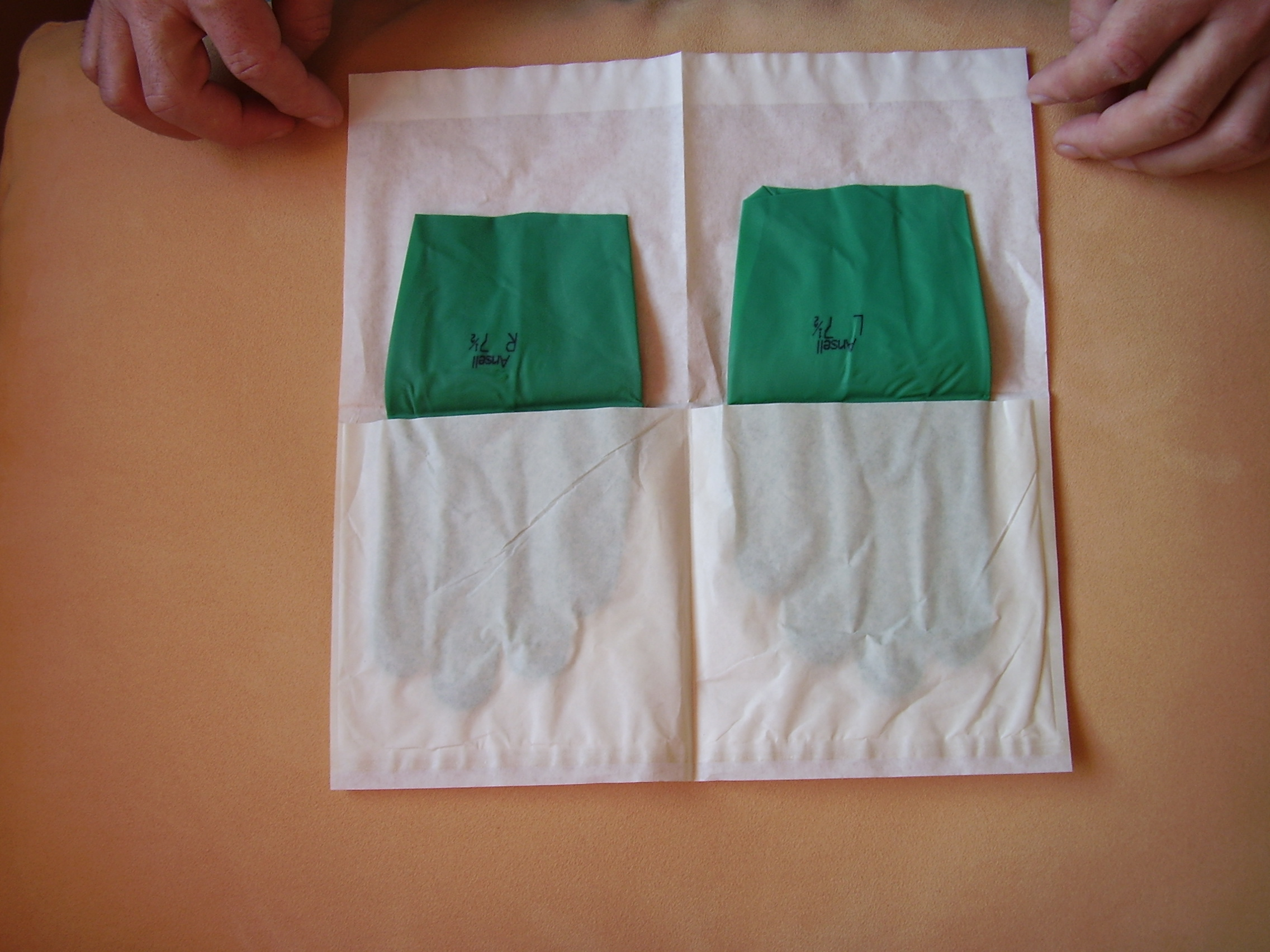 Disposable gloves; surgical gloves; chirurgische Handschuhe; steril; Latexhandschuhe